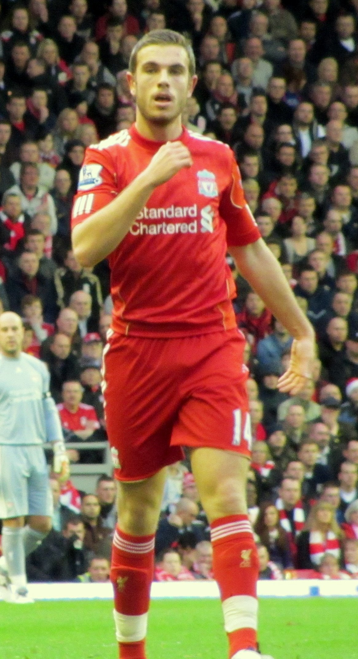 Henderson during the game against Blackburn Rovers